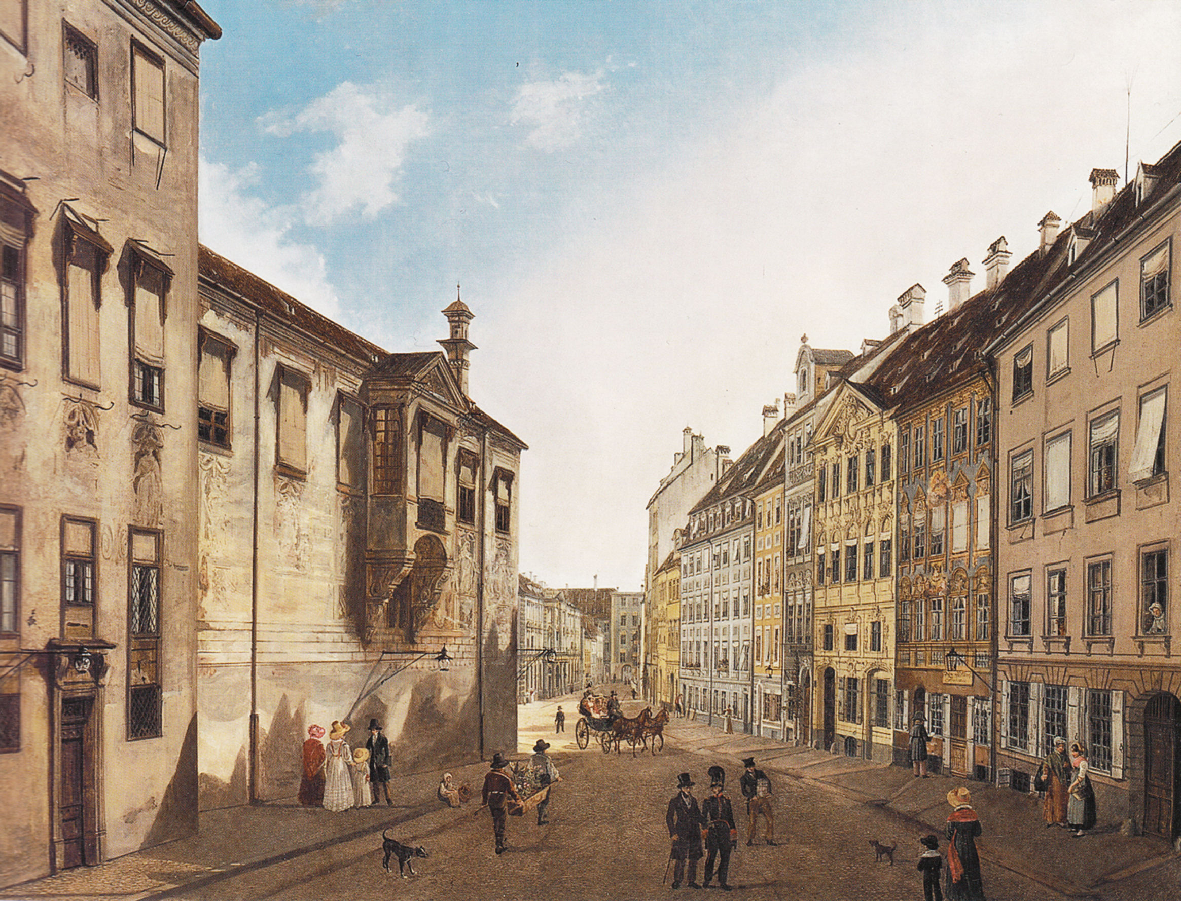 Munich - The Residenzstraße in front of the Max-Joseph-Platz in the year 1826label QS:Len,"Munich - The Residenzstraße in front of the Max-Joseph-Platz in the year 1826" label QS:Lde,"München - Die Residenzstraße gegen den Max-Joseph-Platz im Jahr 1826"